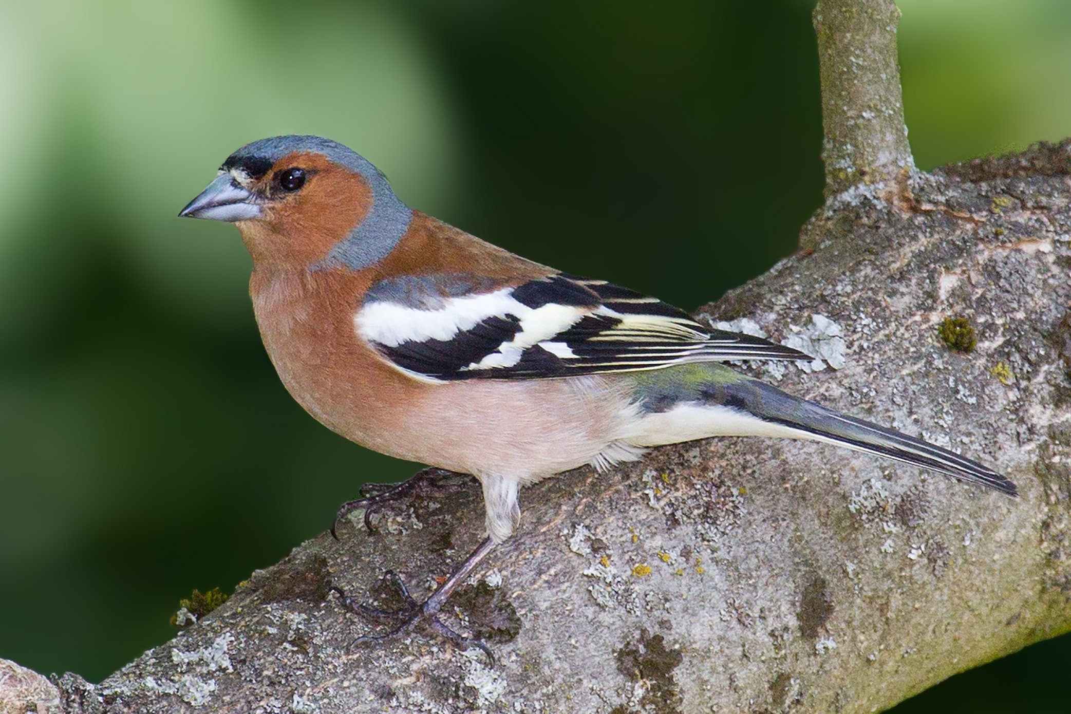 Chaffinch